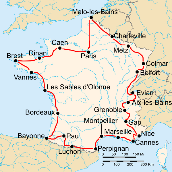 Route of the 1931 Tour de France, starting and finishing in Paris.